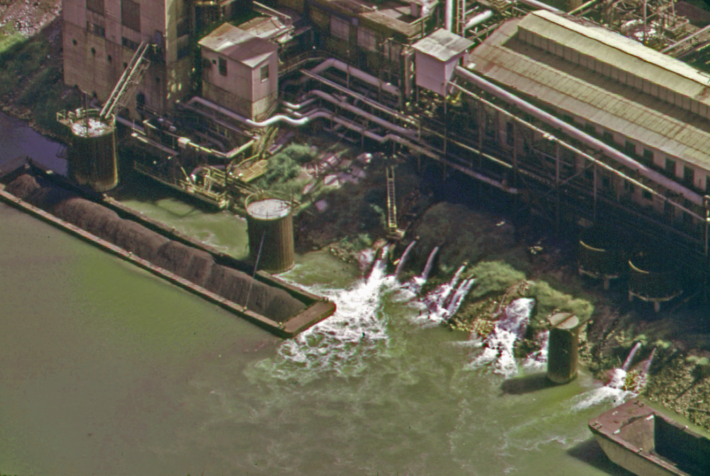 Effluent pours from the South Charleston Union Carbide plant into the Kanawha River ; Some ot this discharge is water that has been heated by passage through the cooling system